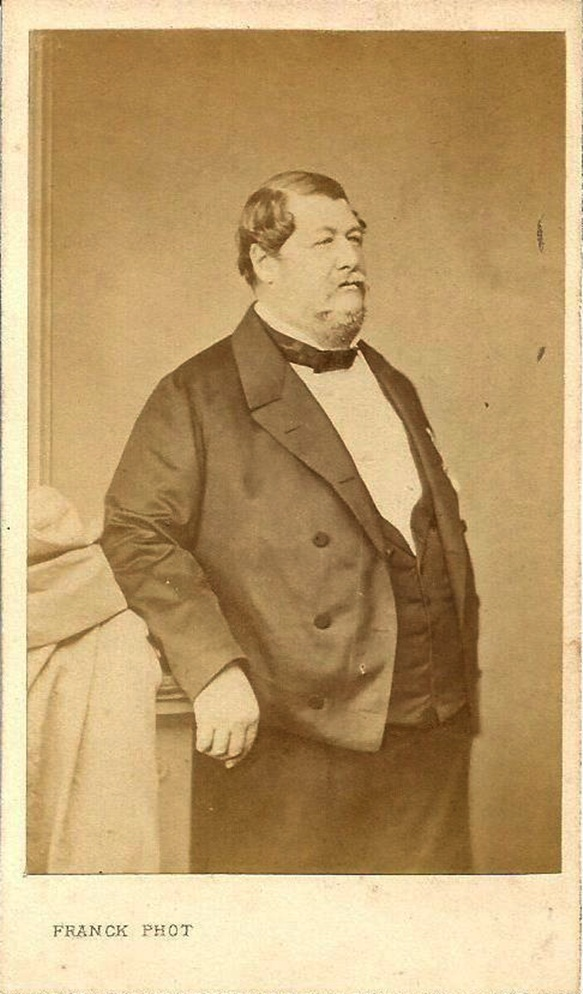 Lucien Murat (1802-1878), third Prince Murat